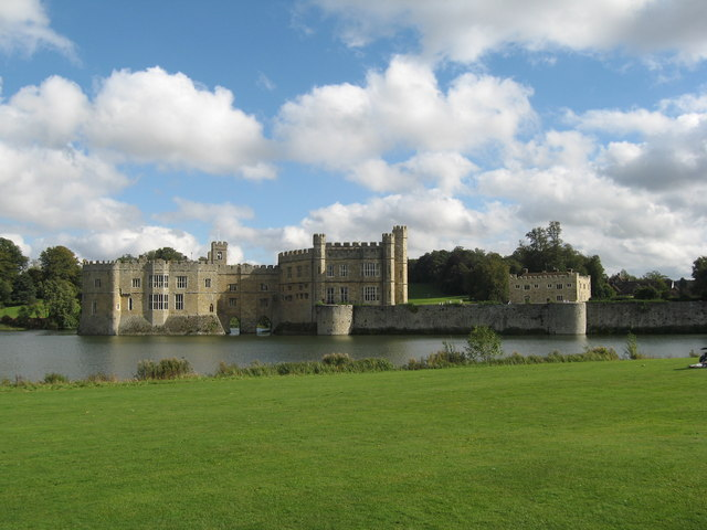 Leeds Castle, Kent Leeds Castle is set on two islands on the River Len in Kent. Robert de Crevecoeur , one of William the Conqueror’s lords, first build a castle here in 1119. Leeds Castle passed into royal hands in 1278 and became part of the Queen of England’s dower - the settlement widowed queens received upon the death of their husbands. Over the course of 150 years it was held by six mediaeval queens: Eleanor of Castile; Margaret of France; Isabella of France, Joan of Navarre; Anne of Bohemia and Catherine de Valois. It has Norman foundations; a mediaeval gatehouse; the Gloriette, built by Edward I and updated in Henry VIII’s times; a Tudor tower; and a 19th century country house - all of which were substantially refurbished in the 20th century.(